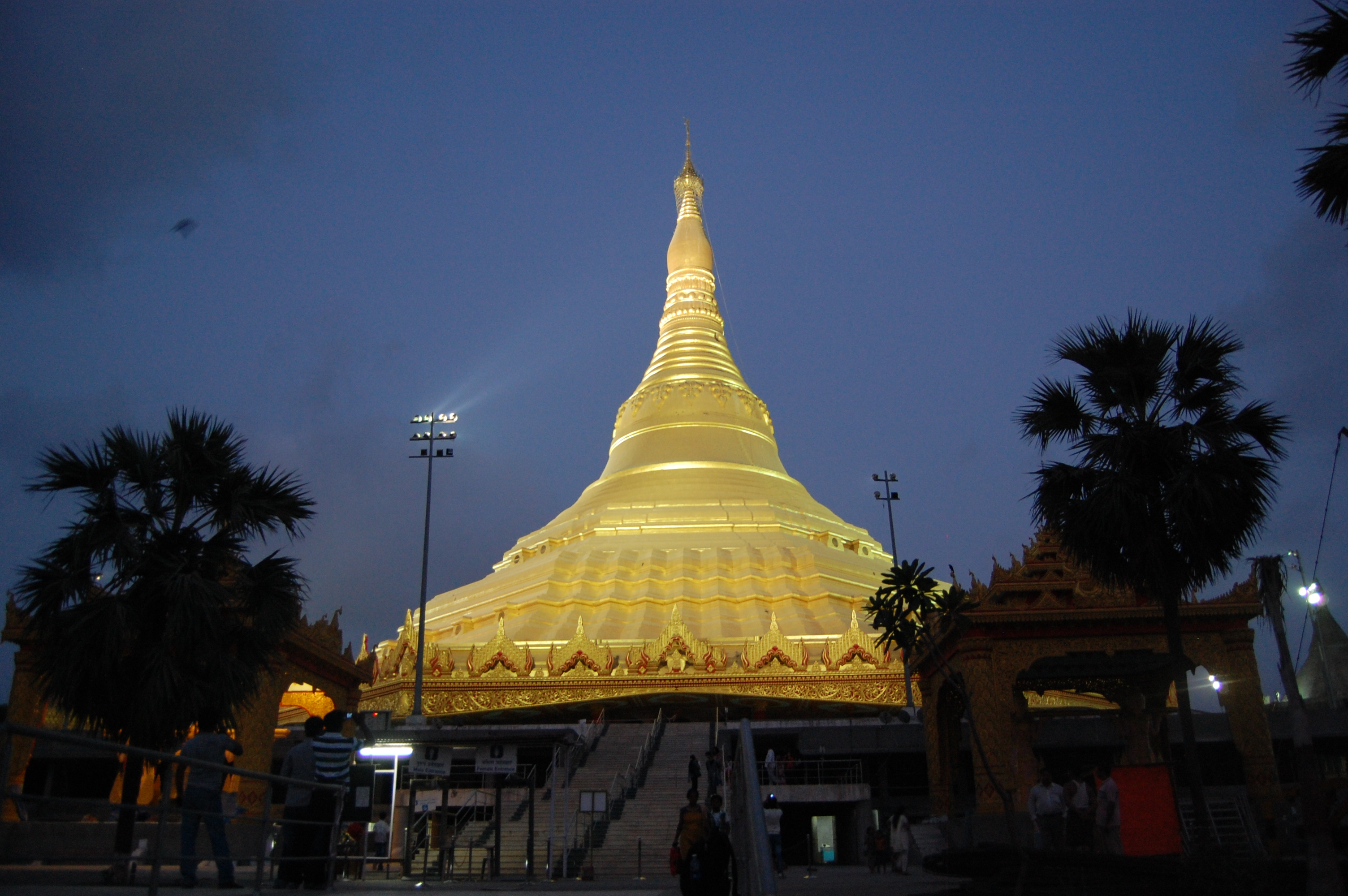 Global Vipassana Pagoda at Gorai, Mumbai